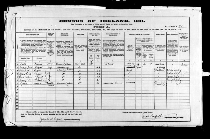 Census records from 1911, Gifford Household